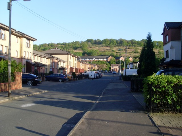 Ardencraig Street With the Cathkin Braes in the background.